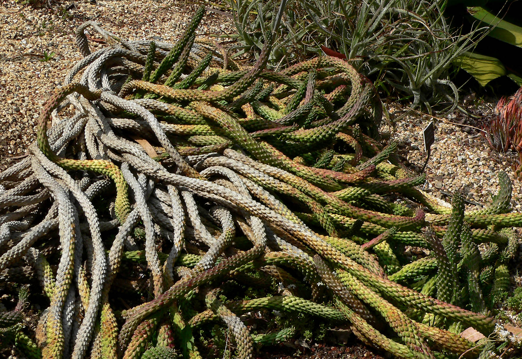 Photo of Euphorbia caput-medusae at the San Francisco Botanical Garden